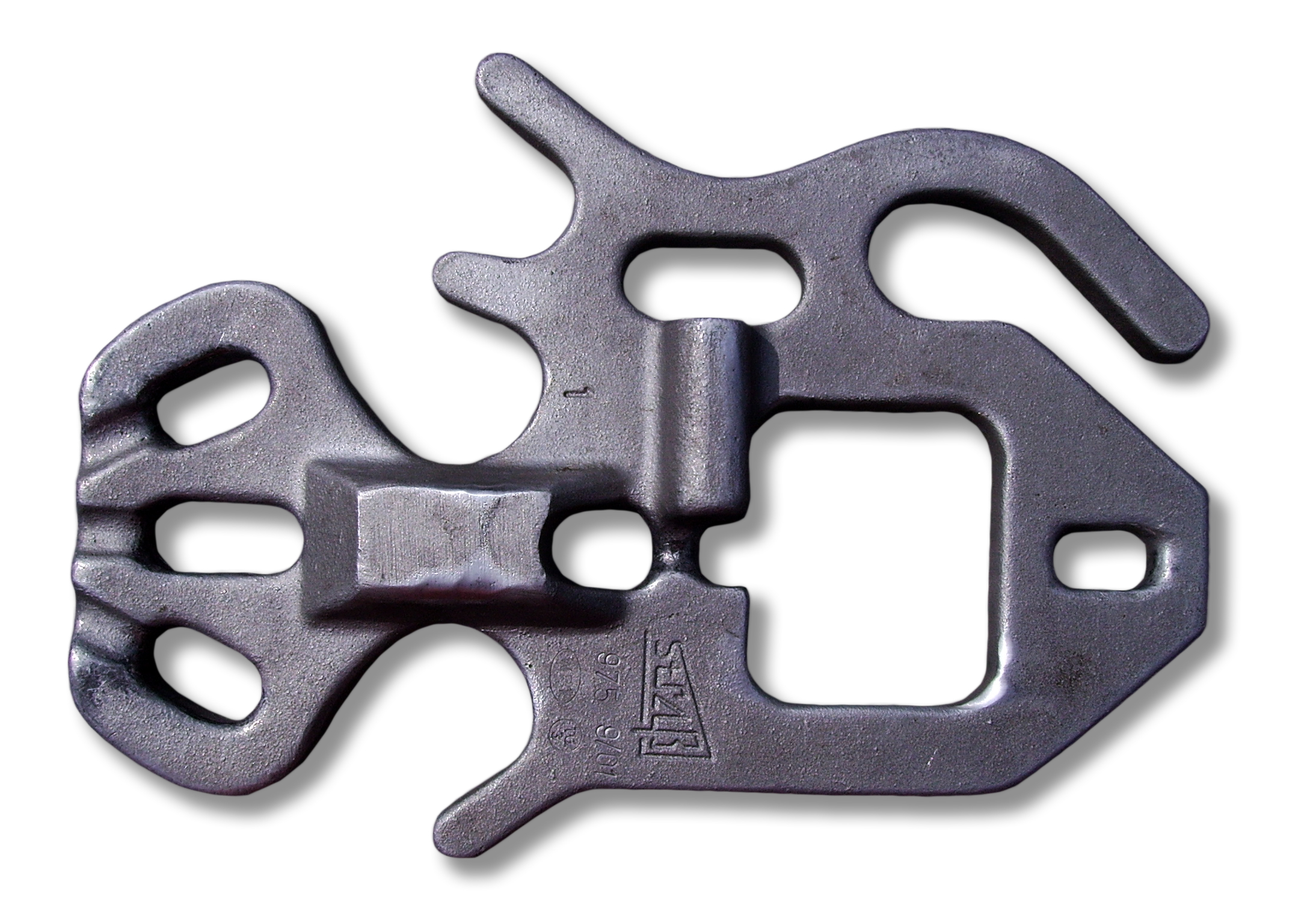 "Radeberger Haken" (Radeberger hook), Rescue tool of German Mountain Rescue, esp. in East Germany